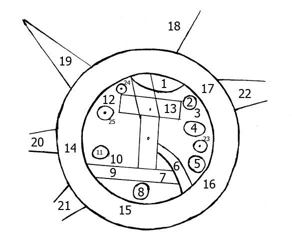 skeleton map of Babylonian World Map